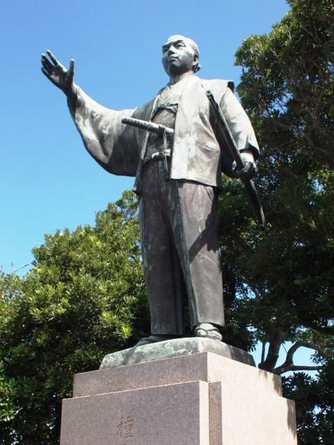 Statue of Lord Tanegashima Tokitaka